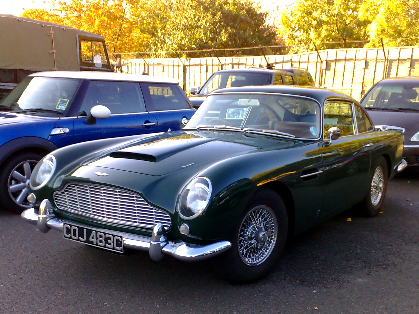 Aston Martin DB5 Vantage